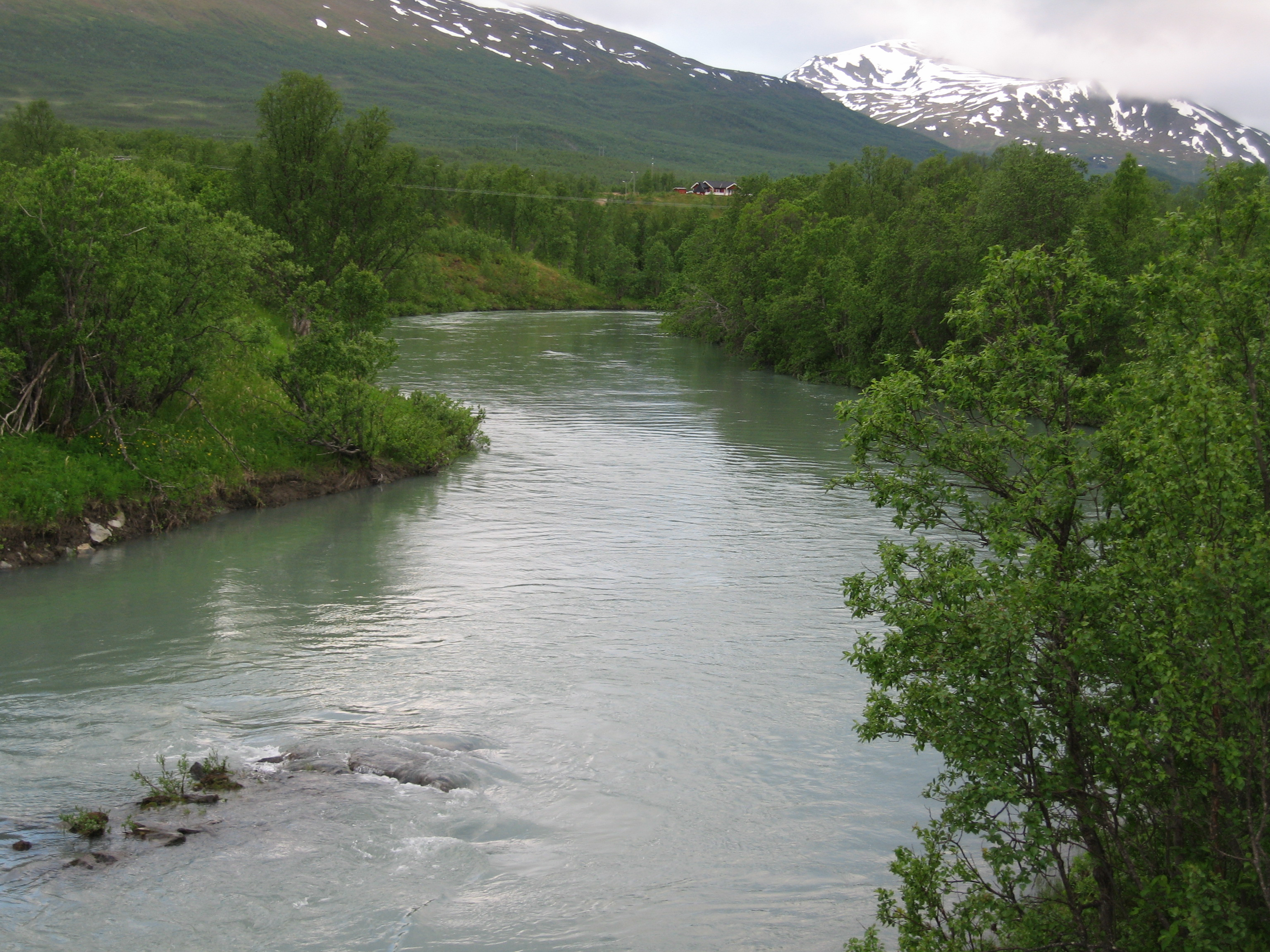 The river Breivikelva in Tromsø, Norway, some 3 kilometers from its mouthNorsk bokmål: Breivikelva i Tromsø, rundt 3 km fra munningen i Ullsfjorden